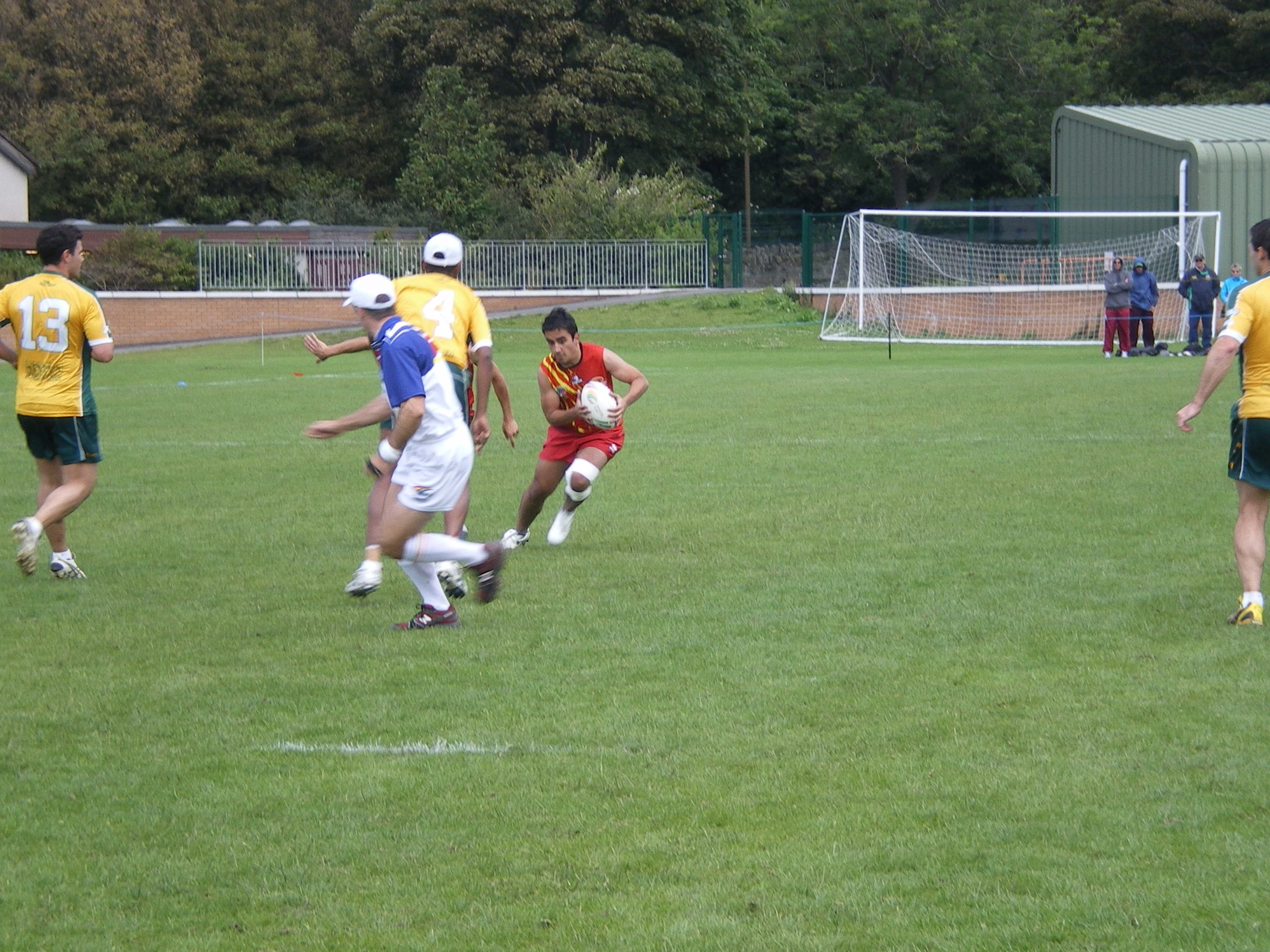 Mixed open division's match between Catalonia and Australia, in 2011 Touch World Cup.